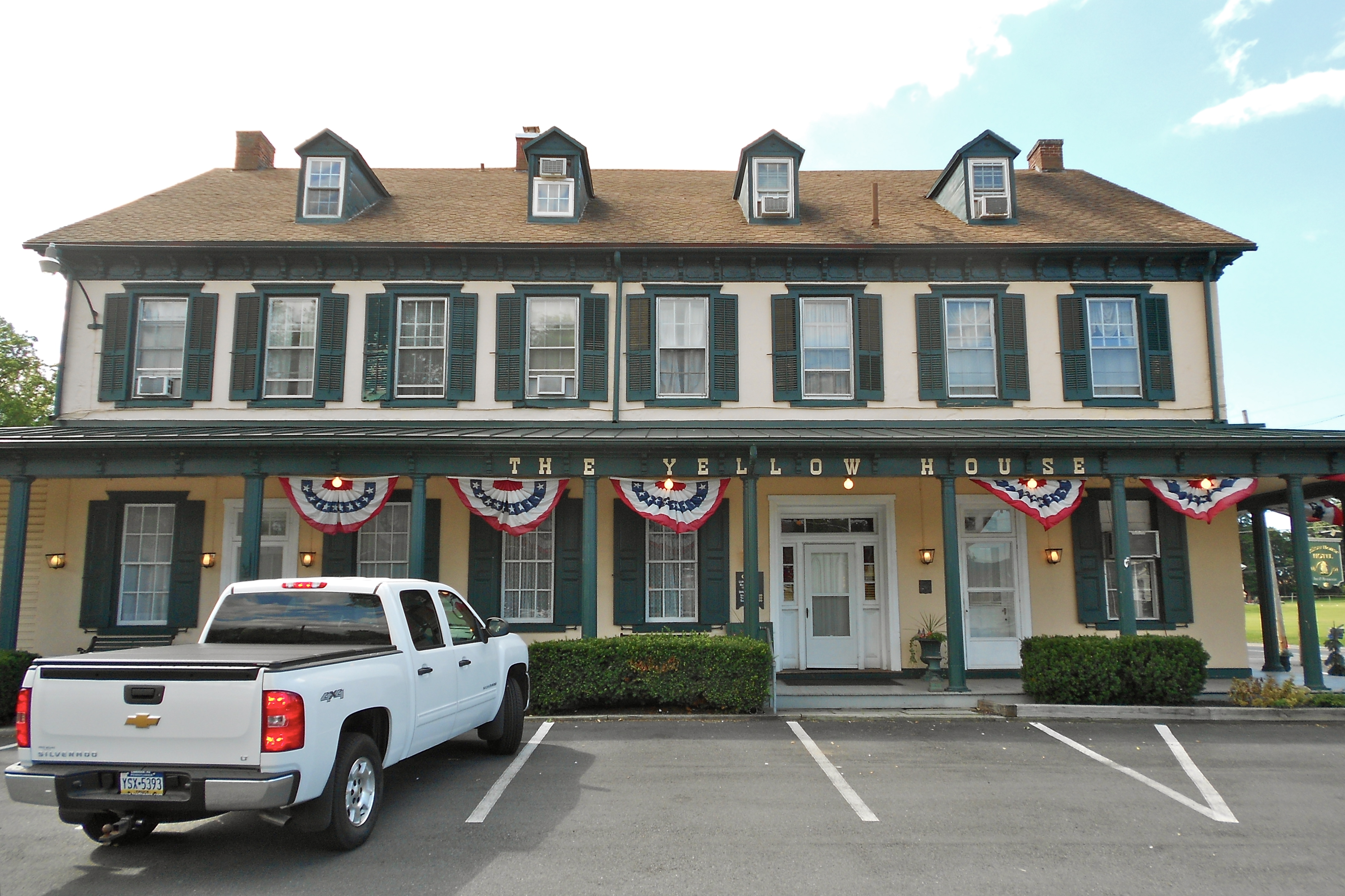 The Yellow House Hotel, founded 1801, in Berks County, Pennsylvania in the hamlet known as Yellow House. At the junction of Routes 562 and 662. Near border of Oley Township and Amity Township